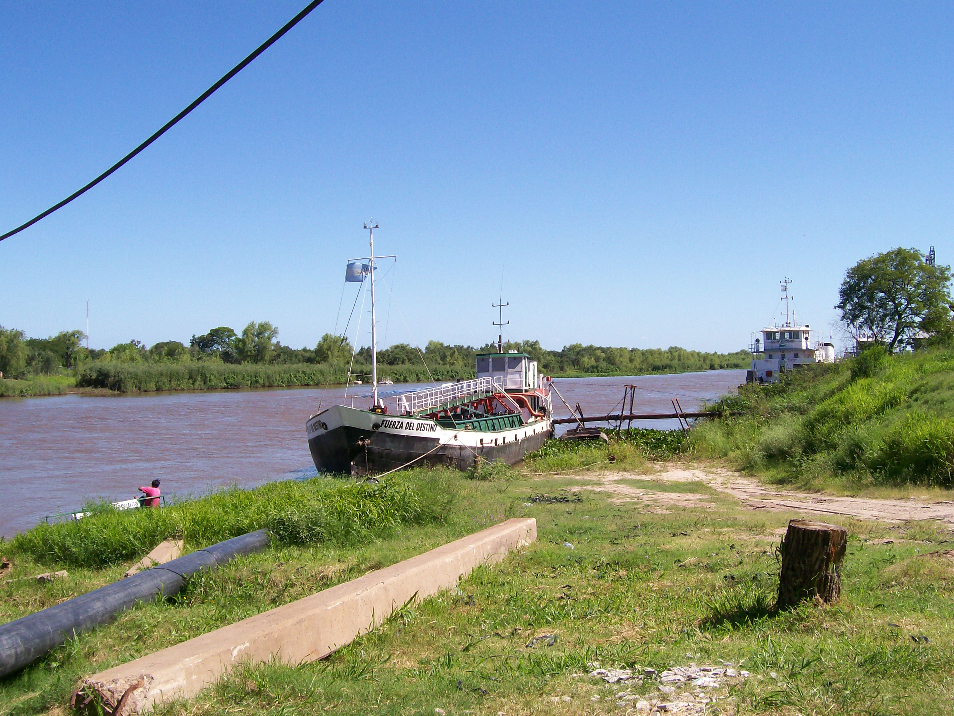 Botes y pescadores en el mirador de Barranqueras (Chaco, Argentina) sobre el riacho Barranqueras. En el frente se ve la isla Santa Rosa y una antena de comunicaciones.